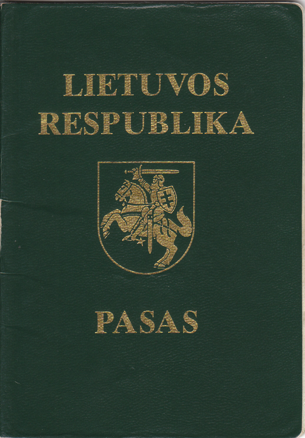 Lithuanian passport issued in year 1994.